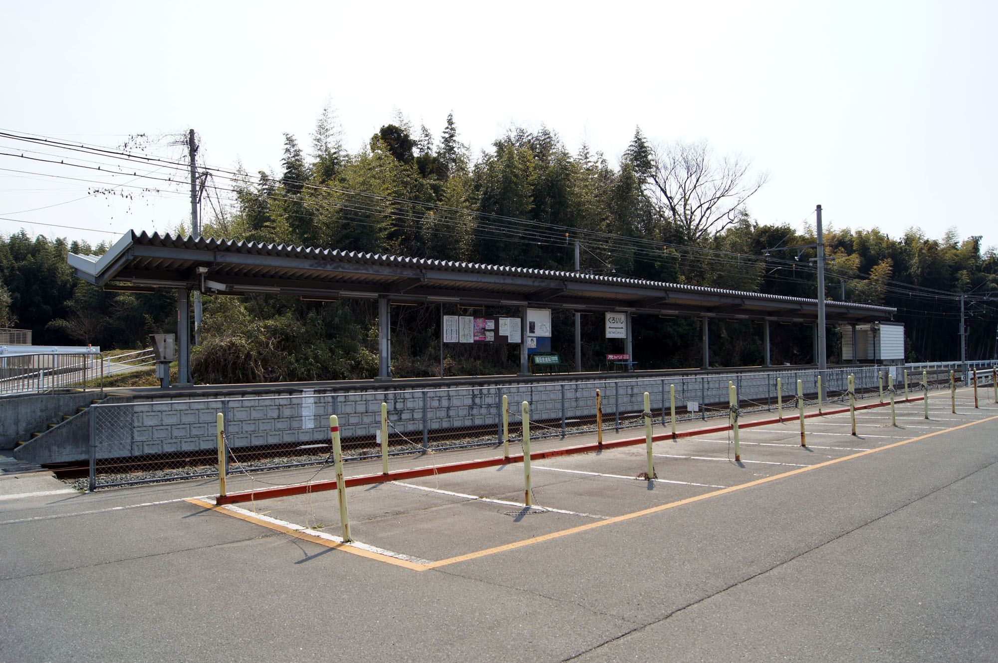 Kumamoto Electric Railway Kuroishi Station, from the west. Bicycle depot lies beside the station.